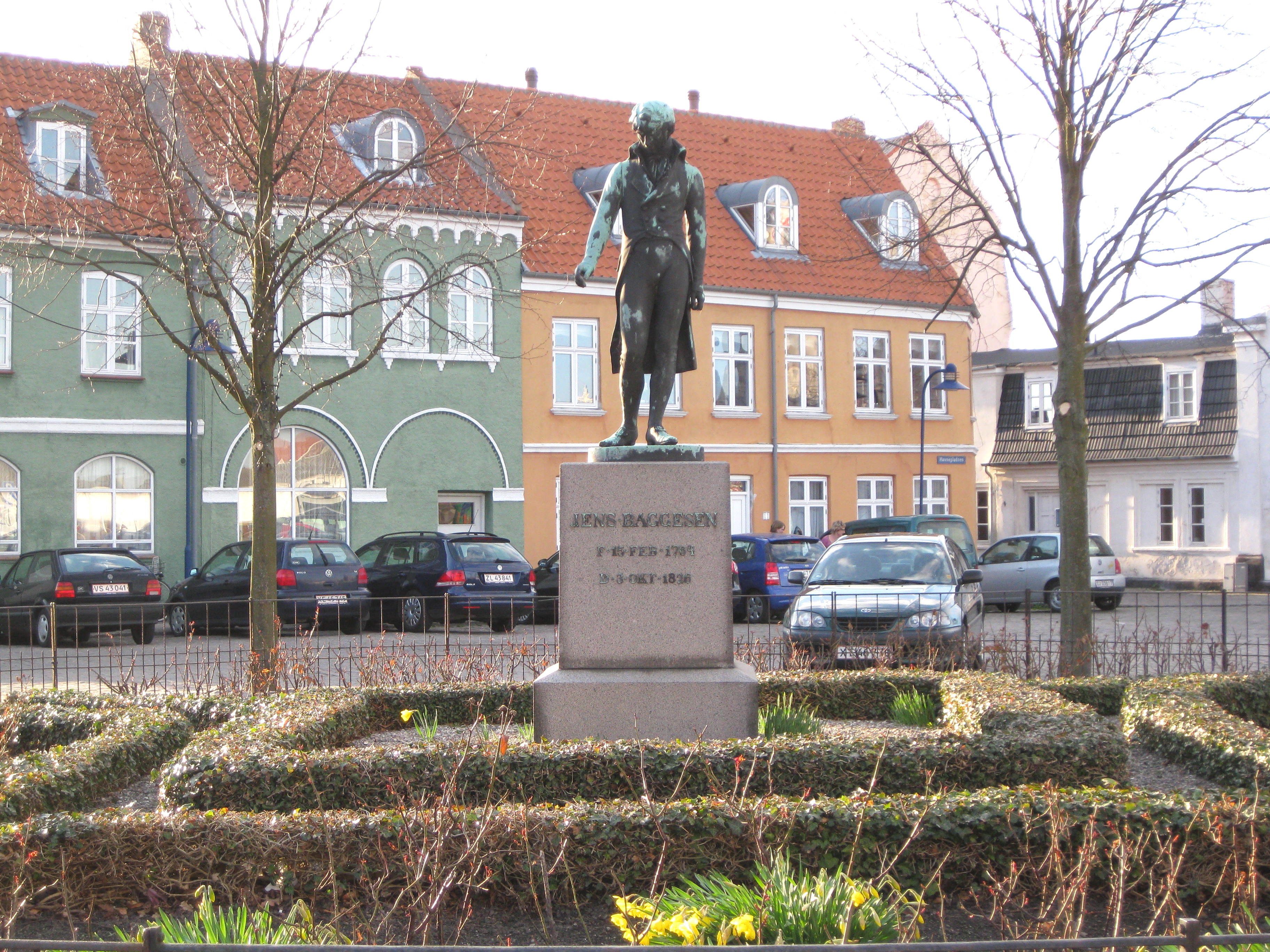 Statue of the poet "Jens Baggesen" in Korsør. The town is located in West Zealand, Denmark.